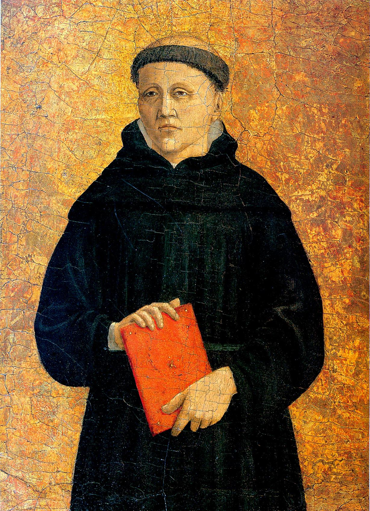 Augustinian Monk Piero della Francesca Tempera on panel, 39 x 28 cm Washington, Frick Collection